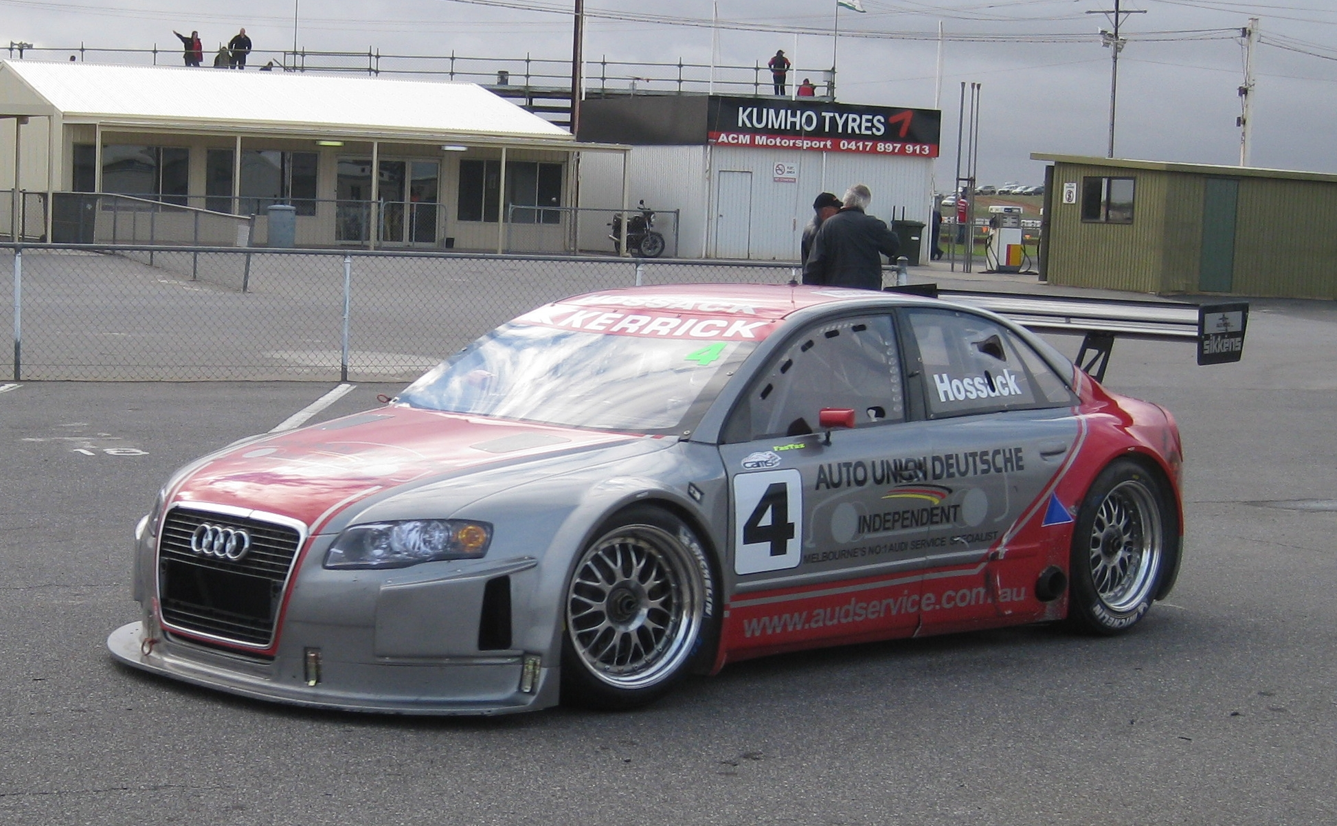 The Audi A4 of Darren Hossack at Mallala Motor Sport Park for Round 2 of the 2010 Kerrick Sports Sedan Series